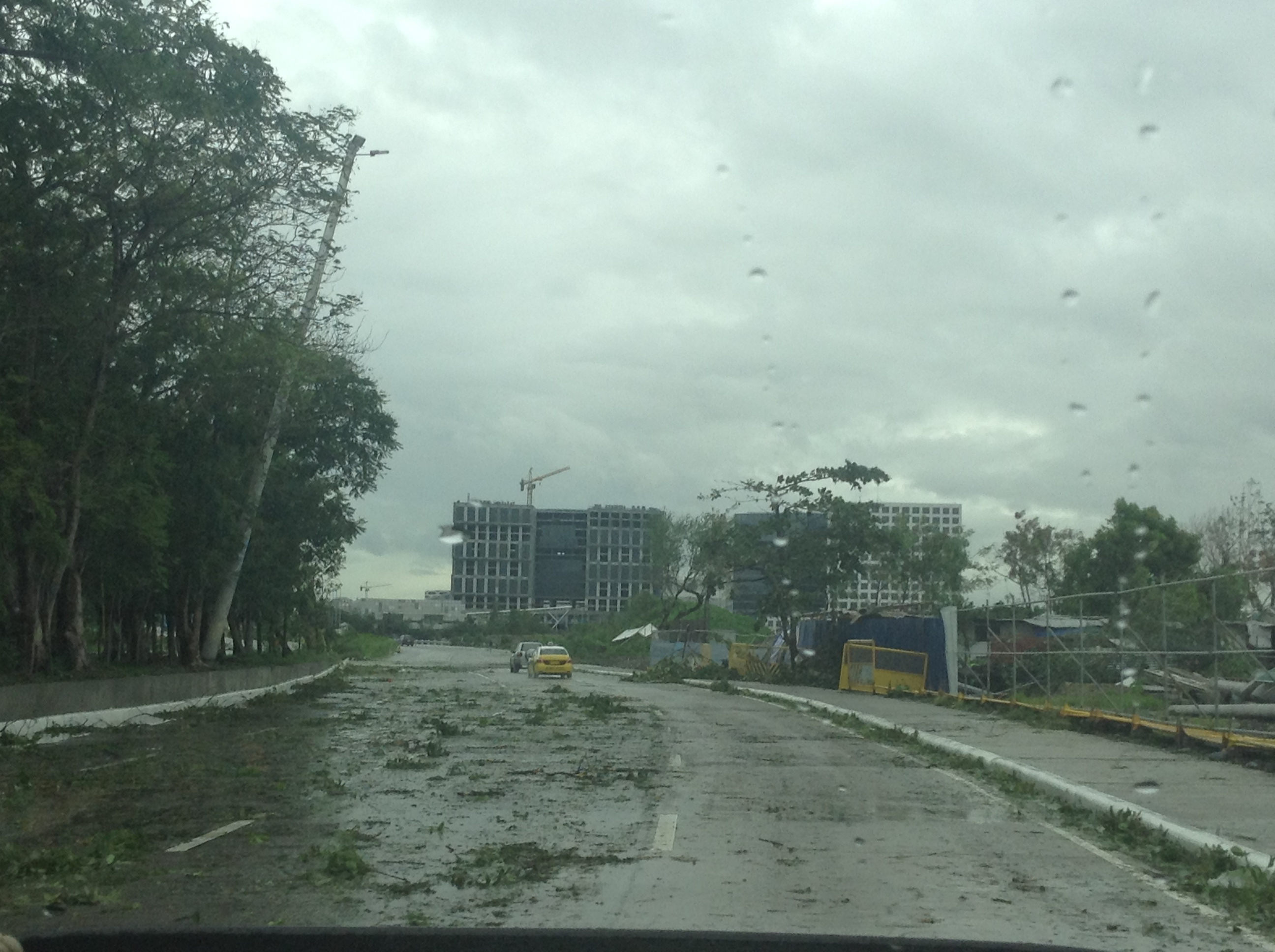 Aftermath of Glenda in Jose W. Diokno Blvd